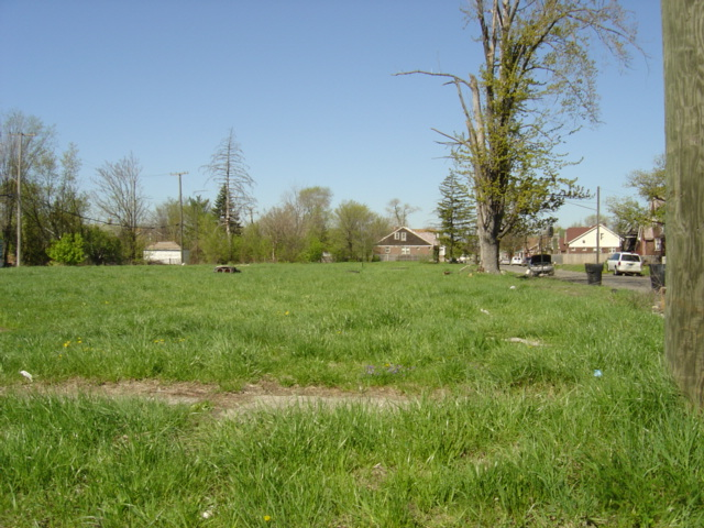 Self-made image of Detroit neighborhood